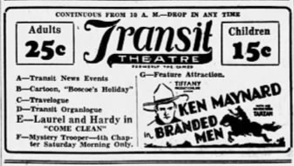 Transit Theater advertisement - 12 Dec MC - Allentown, PA - for the American western film Branded Men (1931).